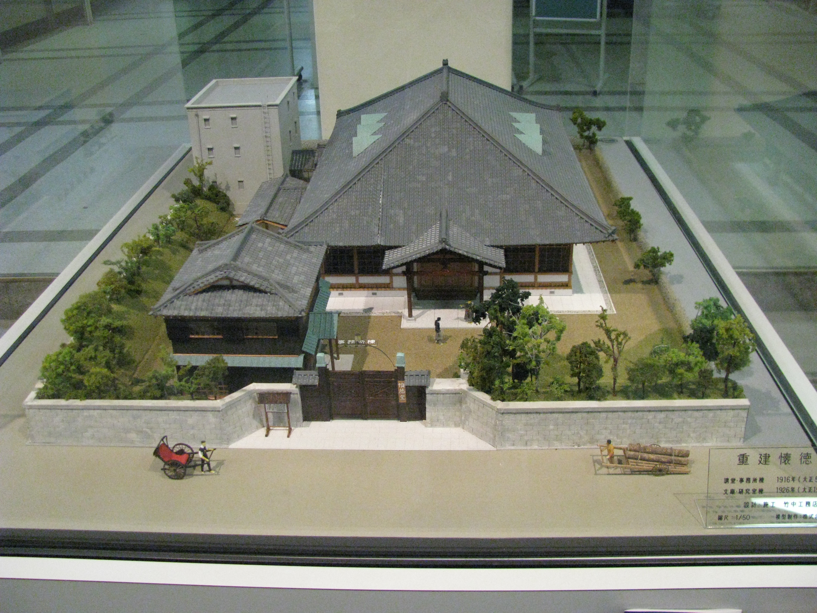 The model of Kaitokudo. Exhibited in Economics building, Toyonaka campus, Osaka University.